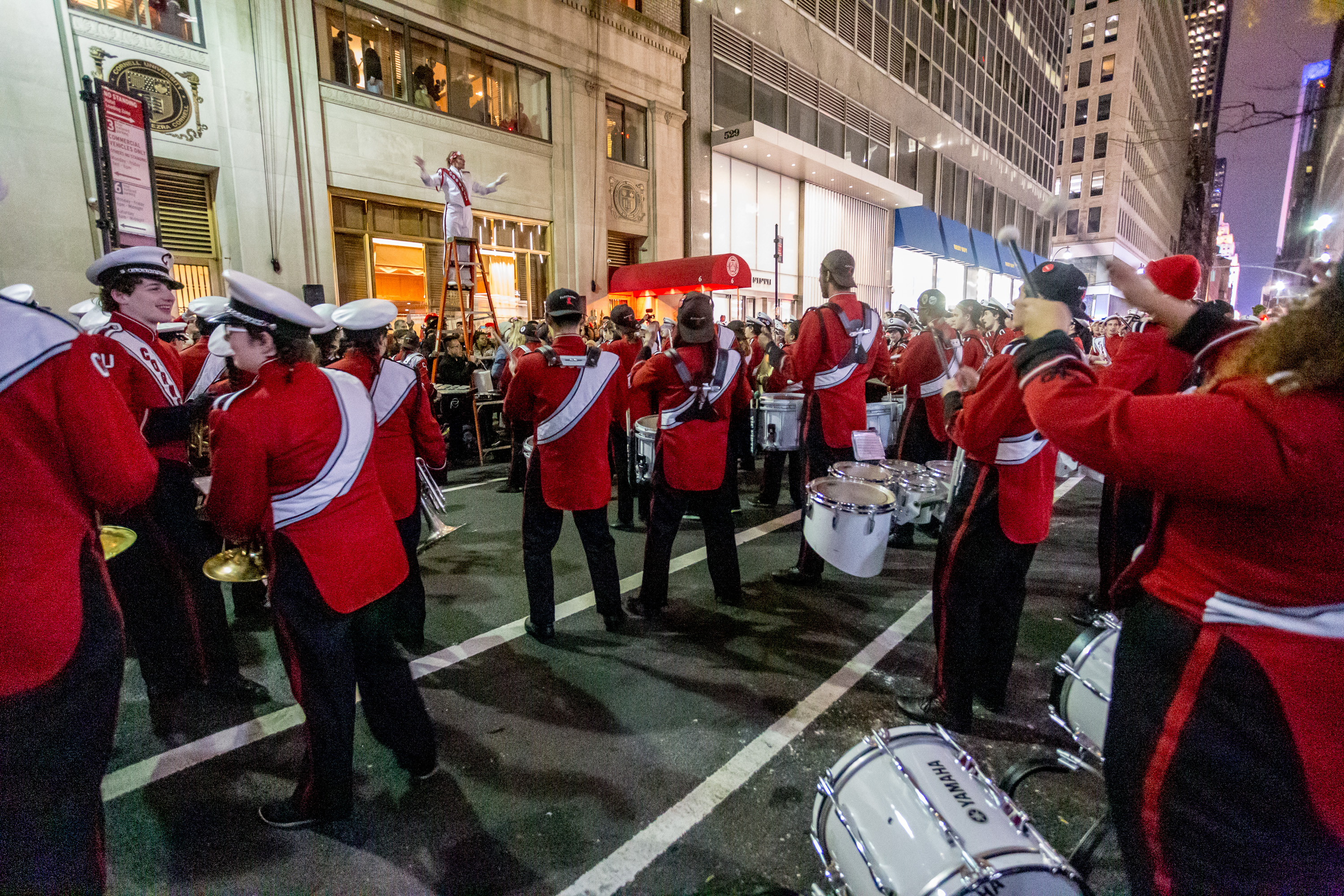 The Big Red Marching Band plays a concert in front of the Cornell Club of New York at the finish of the Sy Katz Parade 2018.